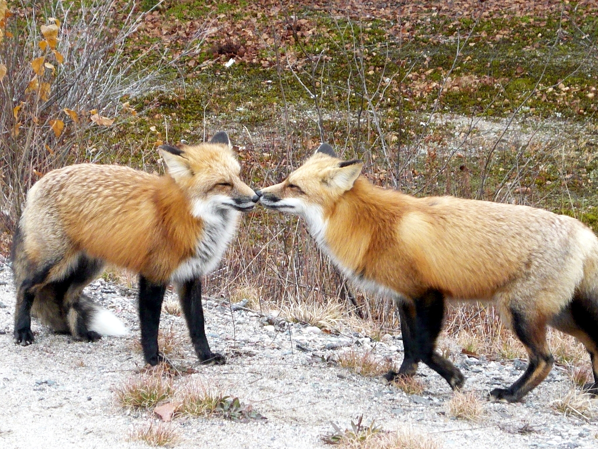 What can I say? Right place, right time to get this awesome shot!